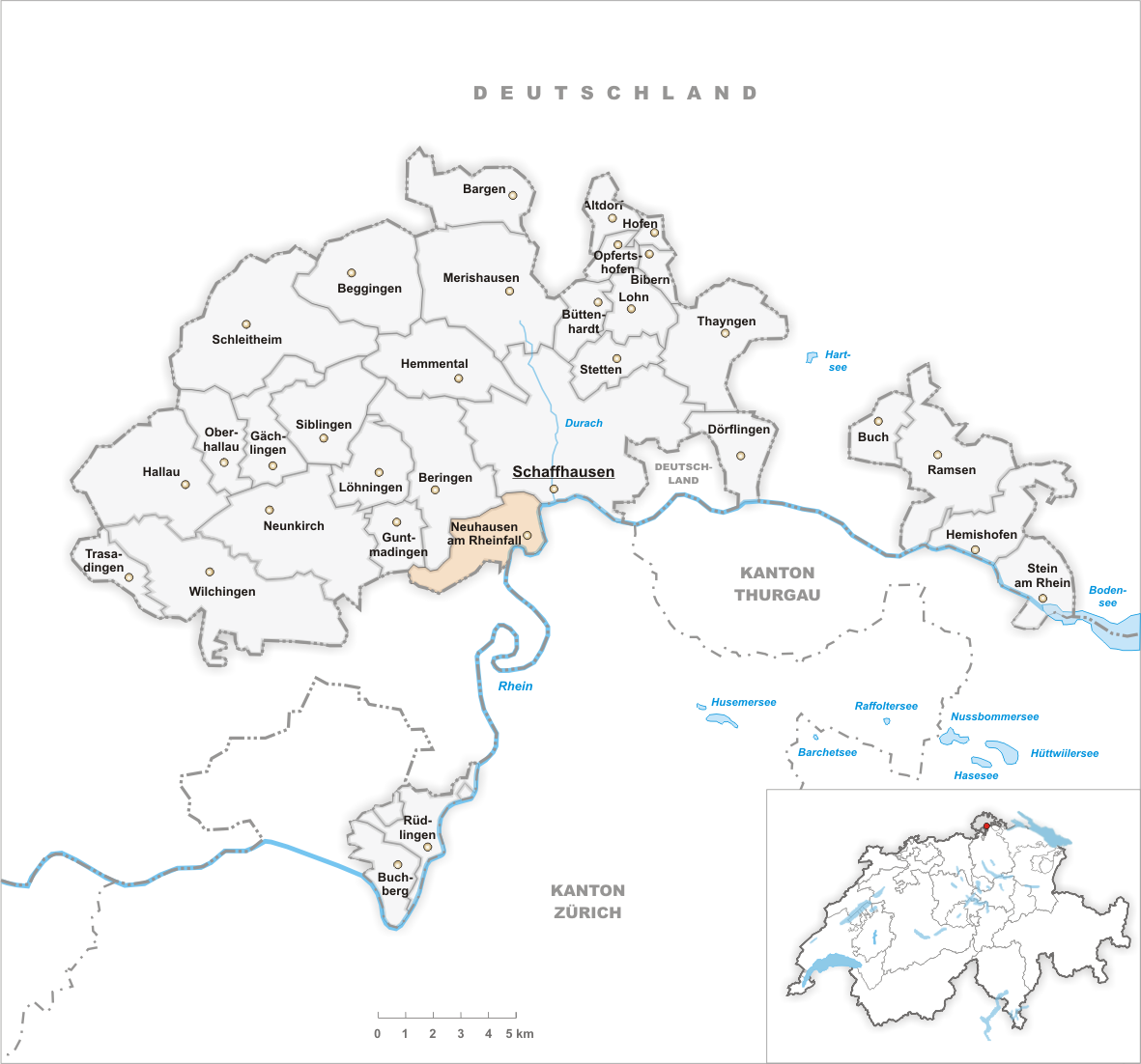 Municipality Neuhausen am Rheinfall